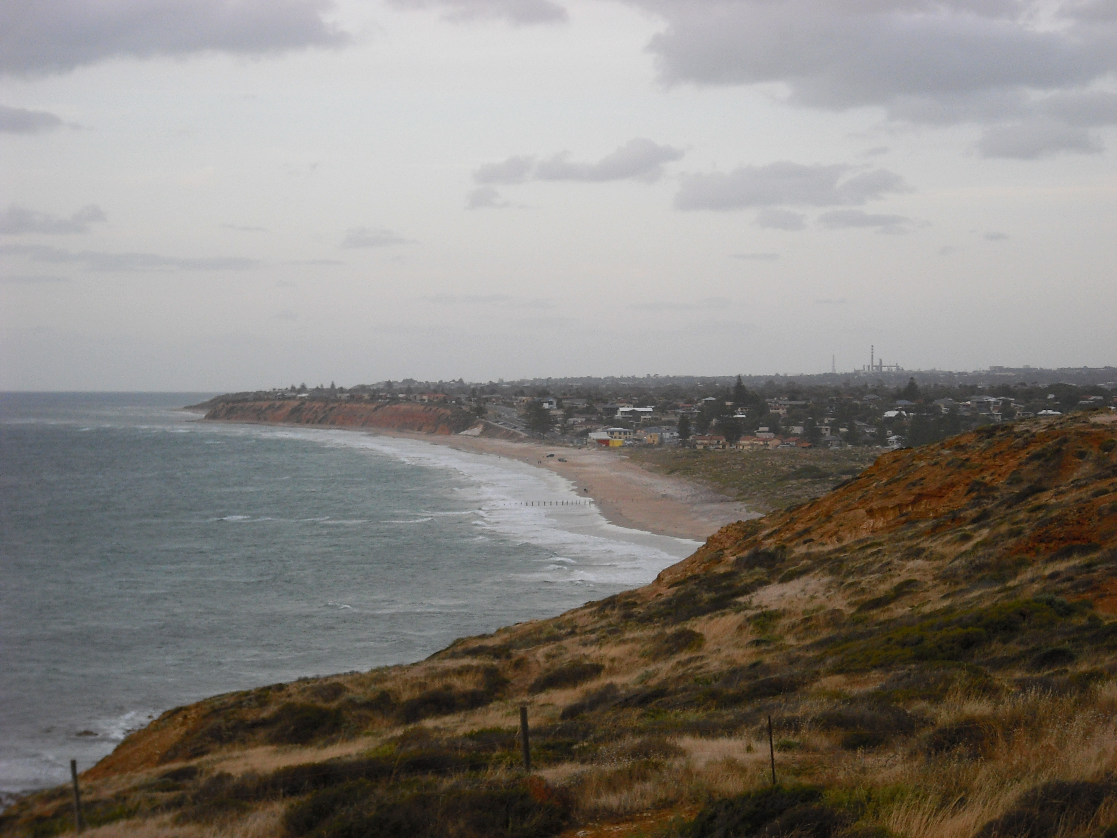 Moana, SA seen from the coastal recreational south of town